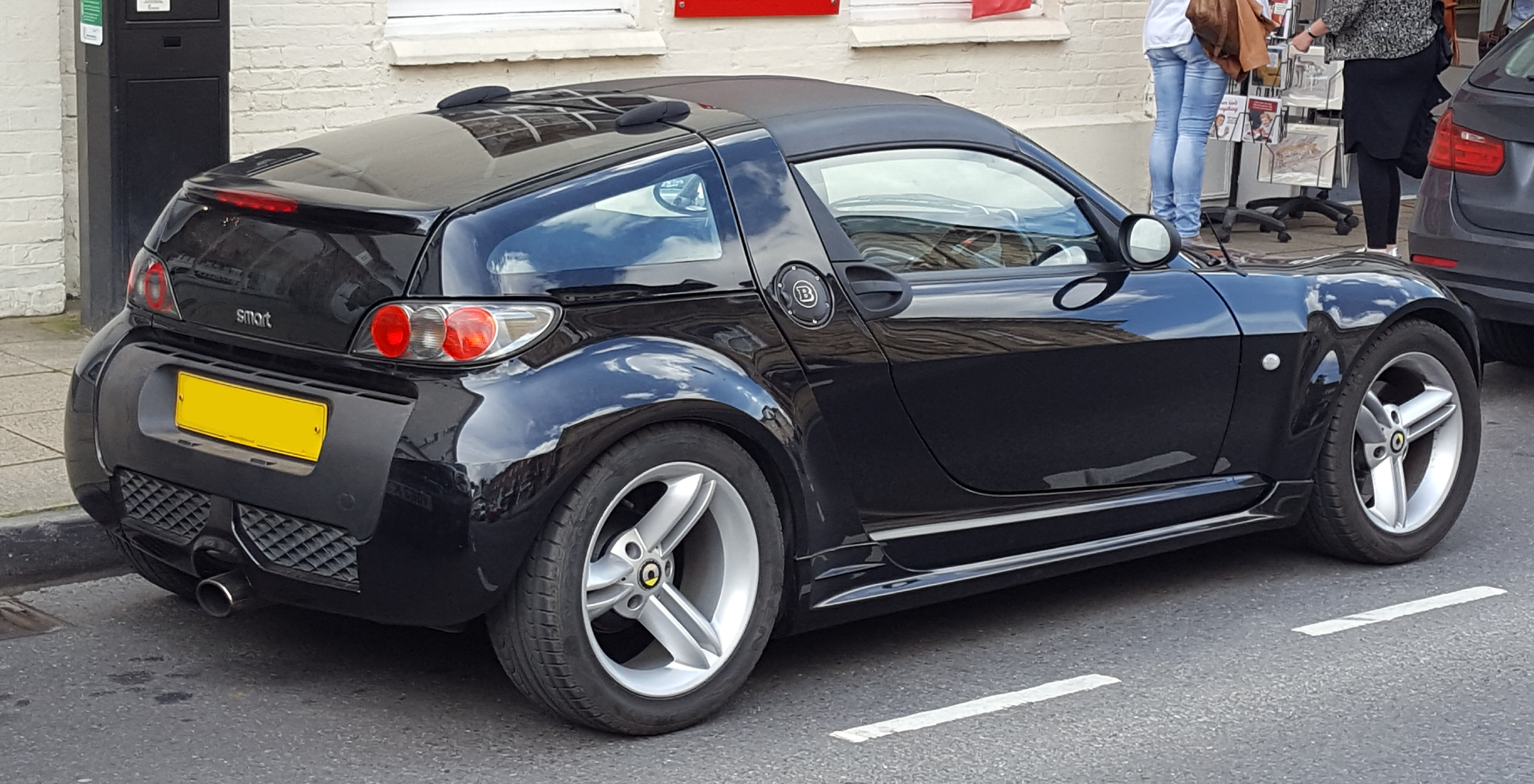 2004 SMART Roadster Coupe Brabus Automatic 700cc Rear Taken in Warwick